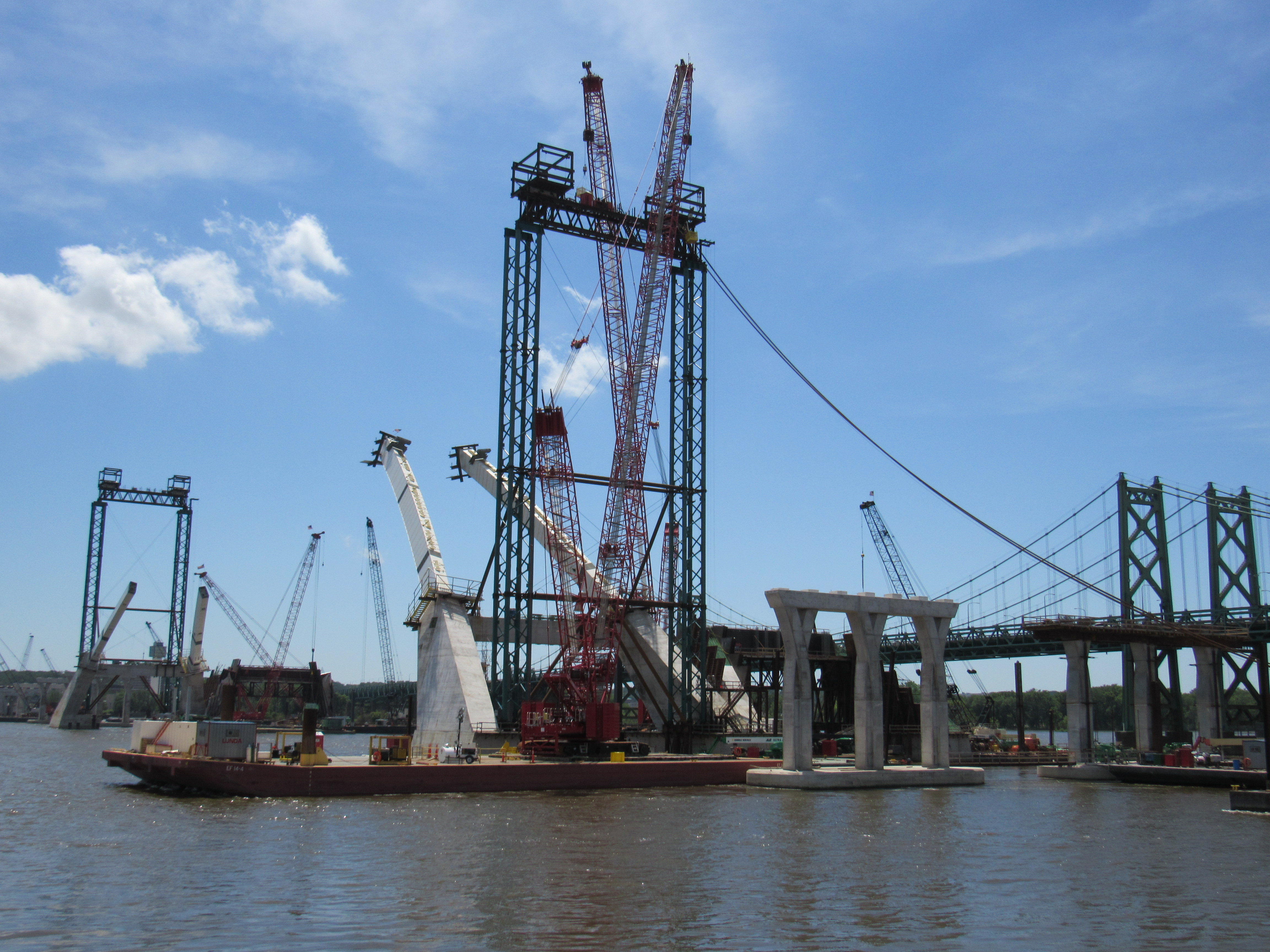 I-74 Bridge construction from the river bank in Bettendorf, Iowa.